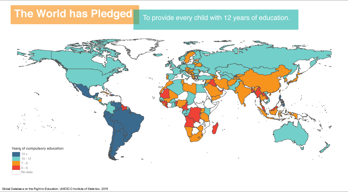 Aid to Basic Education. While millions of children remain excluded from primary school, an extra $39 billion is needed each year to achieve universal primary and secondary education.